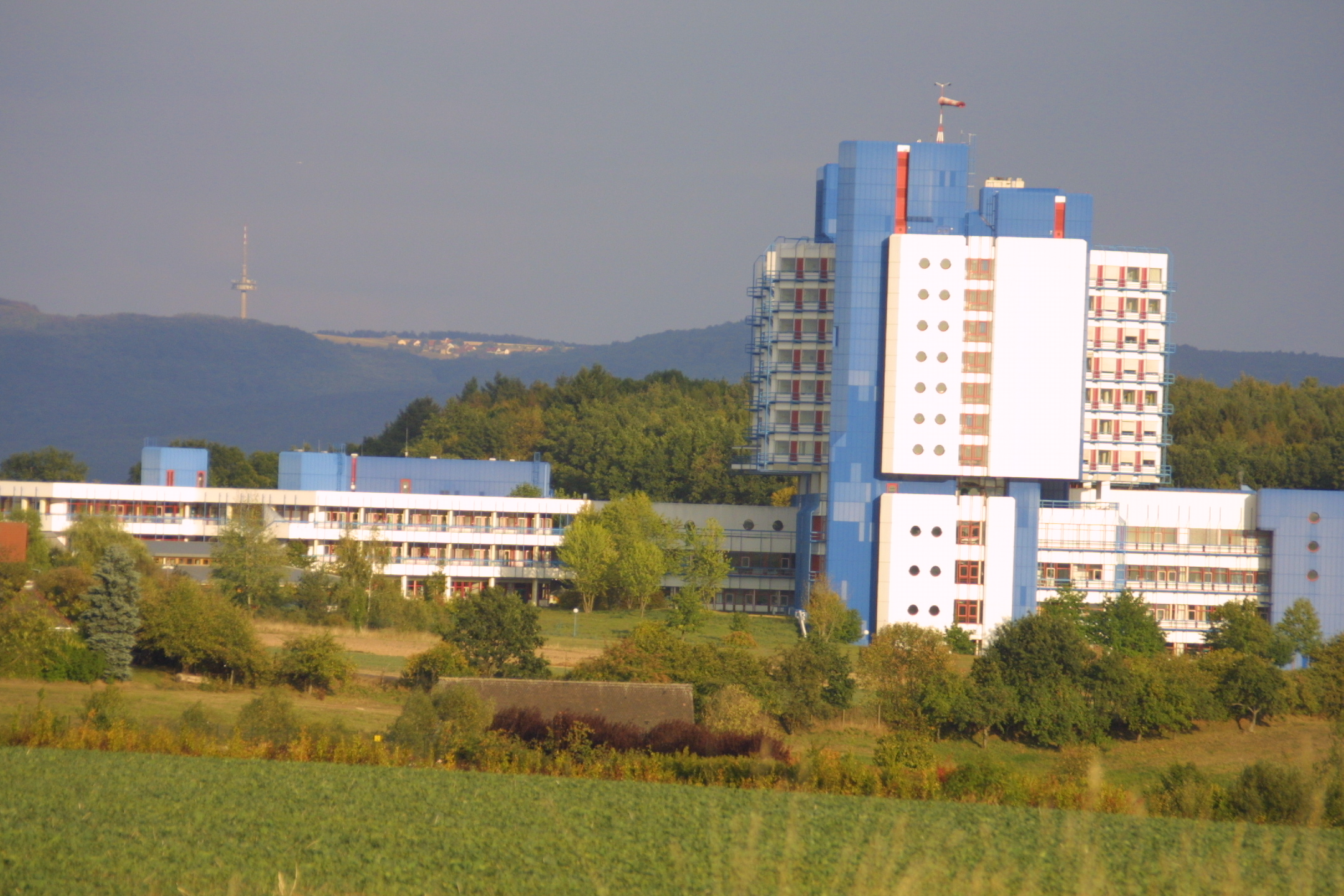 sights of Bamberg, Germany